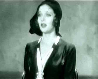 Loretta Young in the film Beau Ideal (1930).